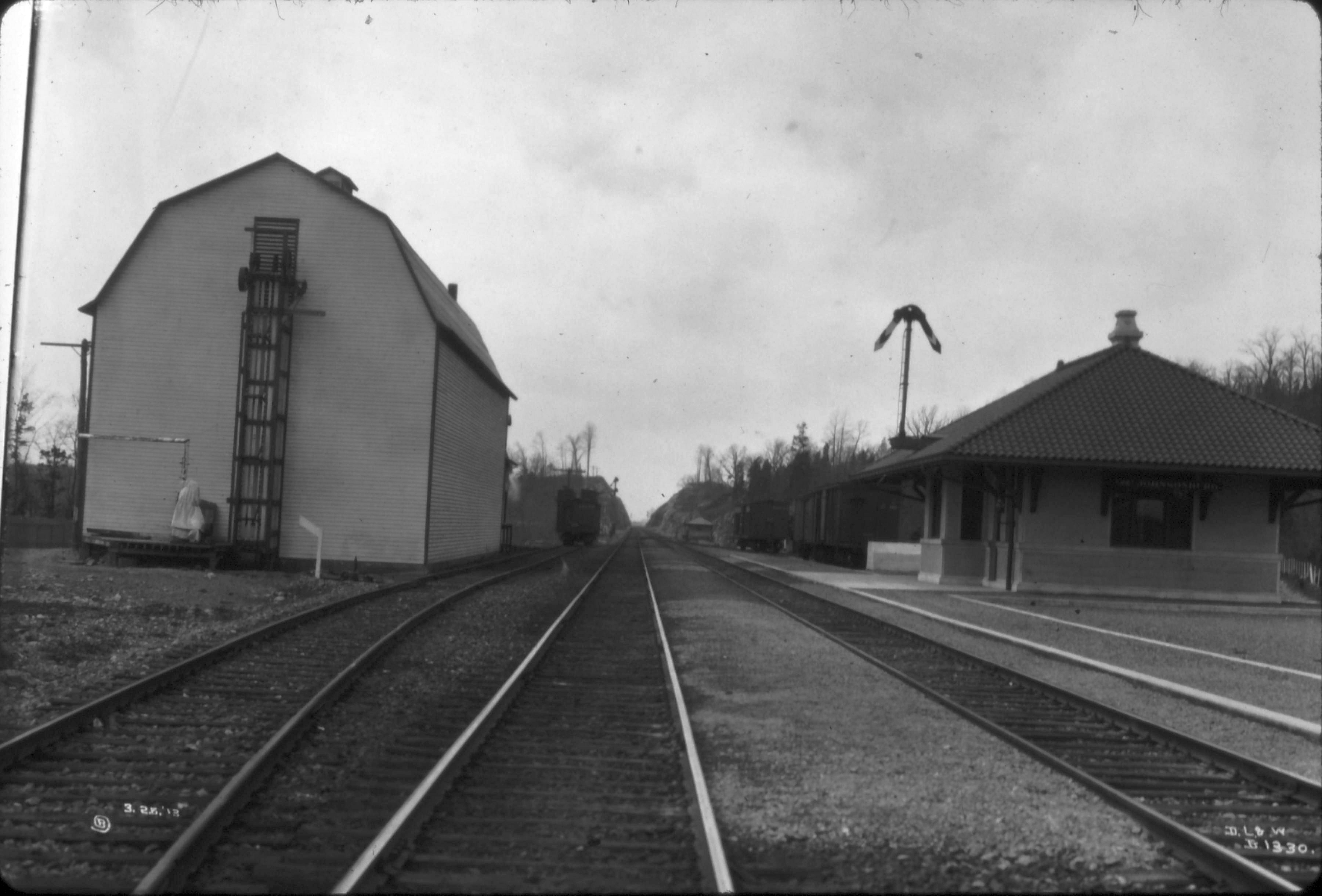 DL&W RR Photograph, 1912